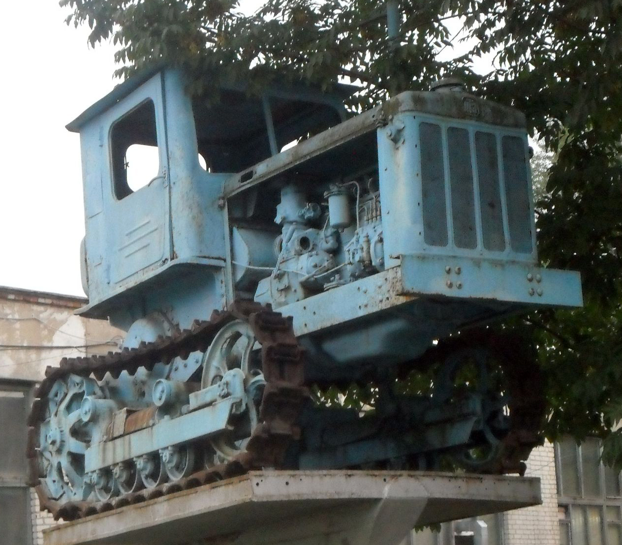 T-38 tractor on pedestal in Kasinovsky, Kurskaya oblast, Russia